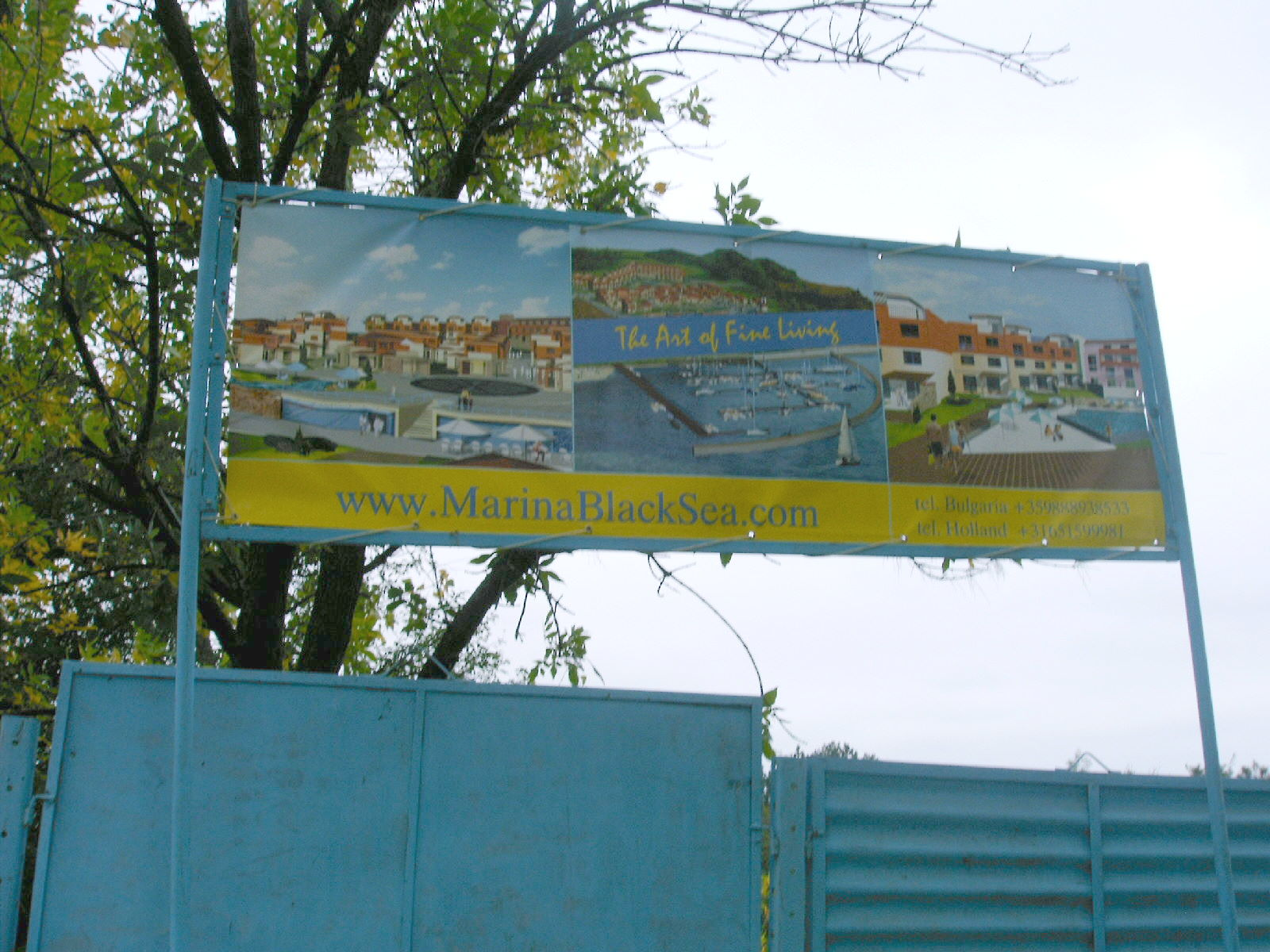 sign announcing villas to be constructed near Byala, Bulgaria; villas were never build because of fraud